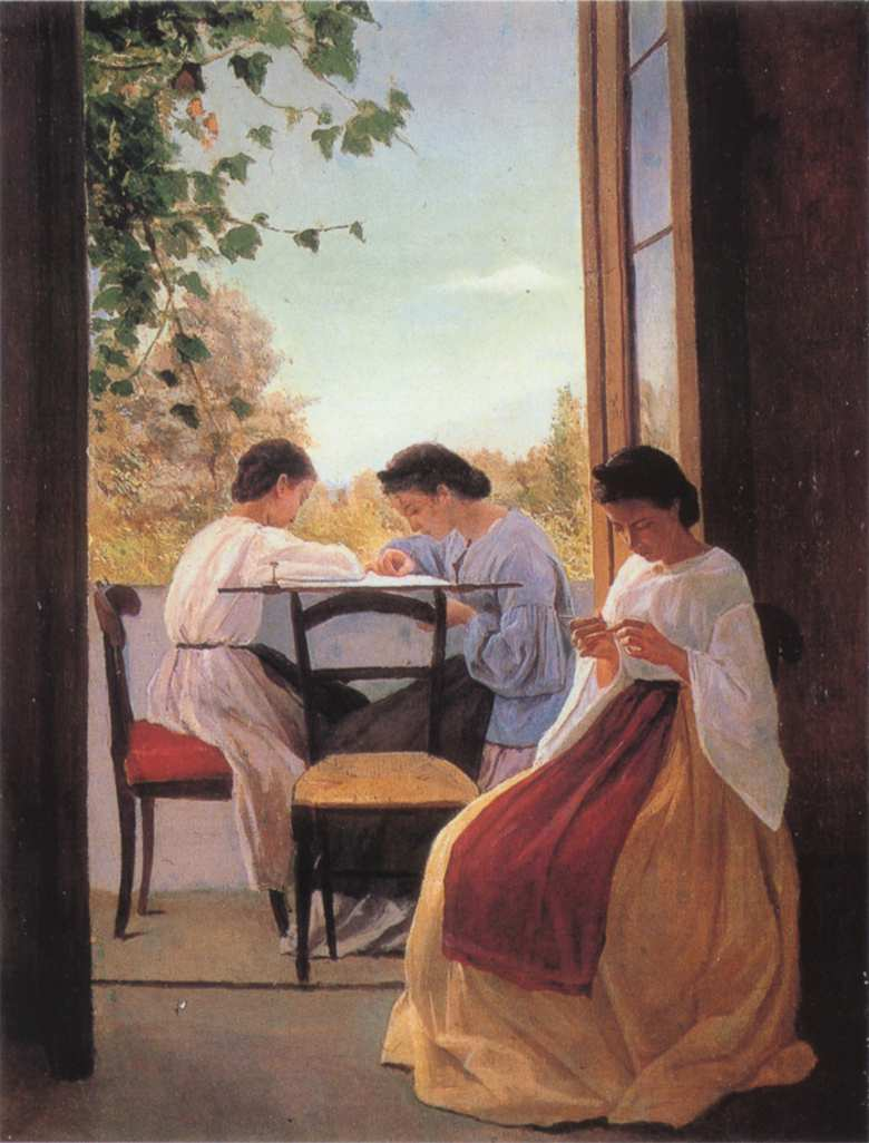 The Embroiderers